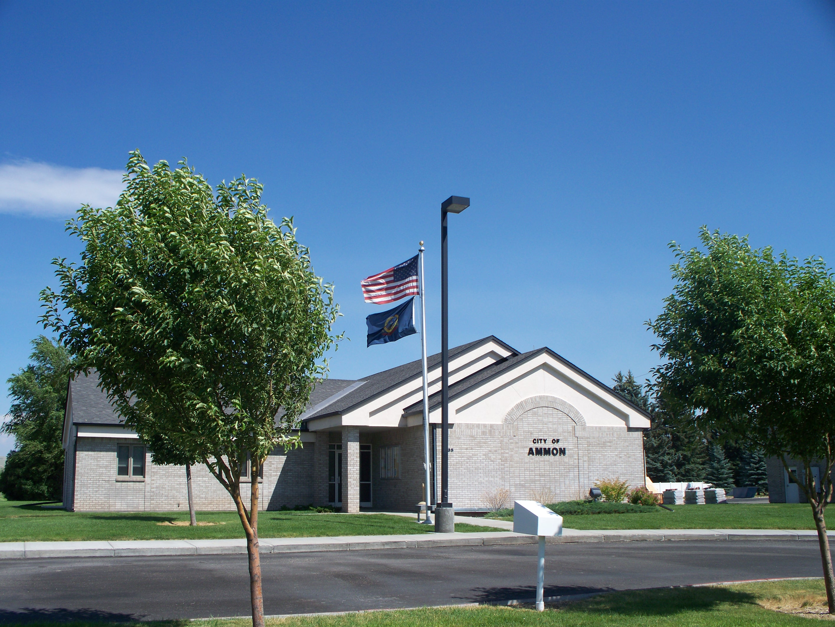 The City Building in Ammon also houses the Fire Department and the Ammon Field Office of the Bonneville Sheriff Office.